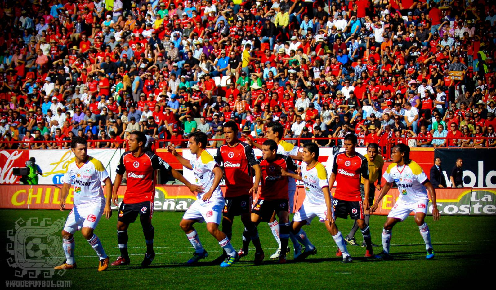 Tijuana and Morelia battling in the First Round